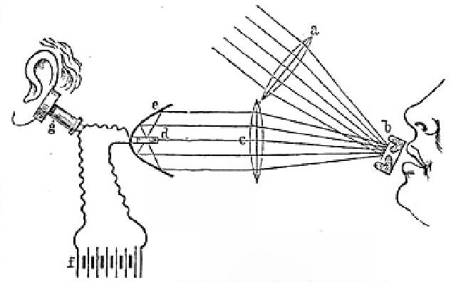 Alexander Graham Bell's photophone -technical drawing by Bell